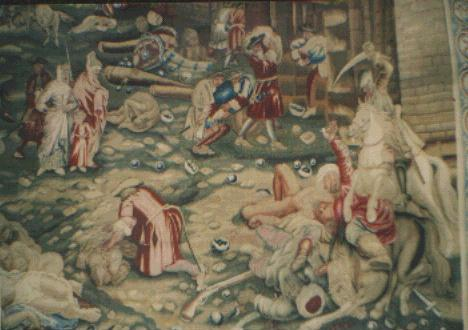 The cristian army massacre to the Jews and Ottomans in Buda (1686)